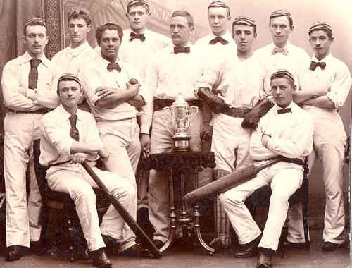 The cricket team from Boldklubben Frem which won the 1898 tournament.